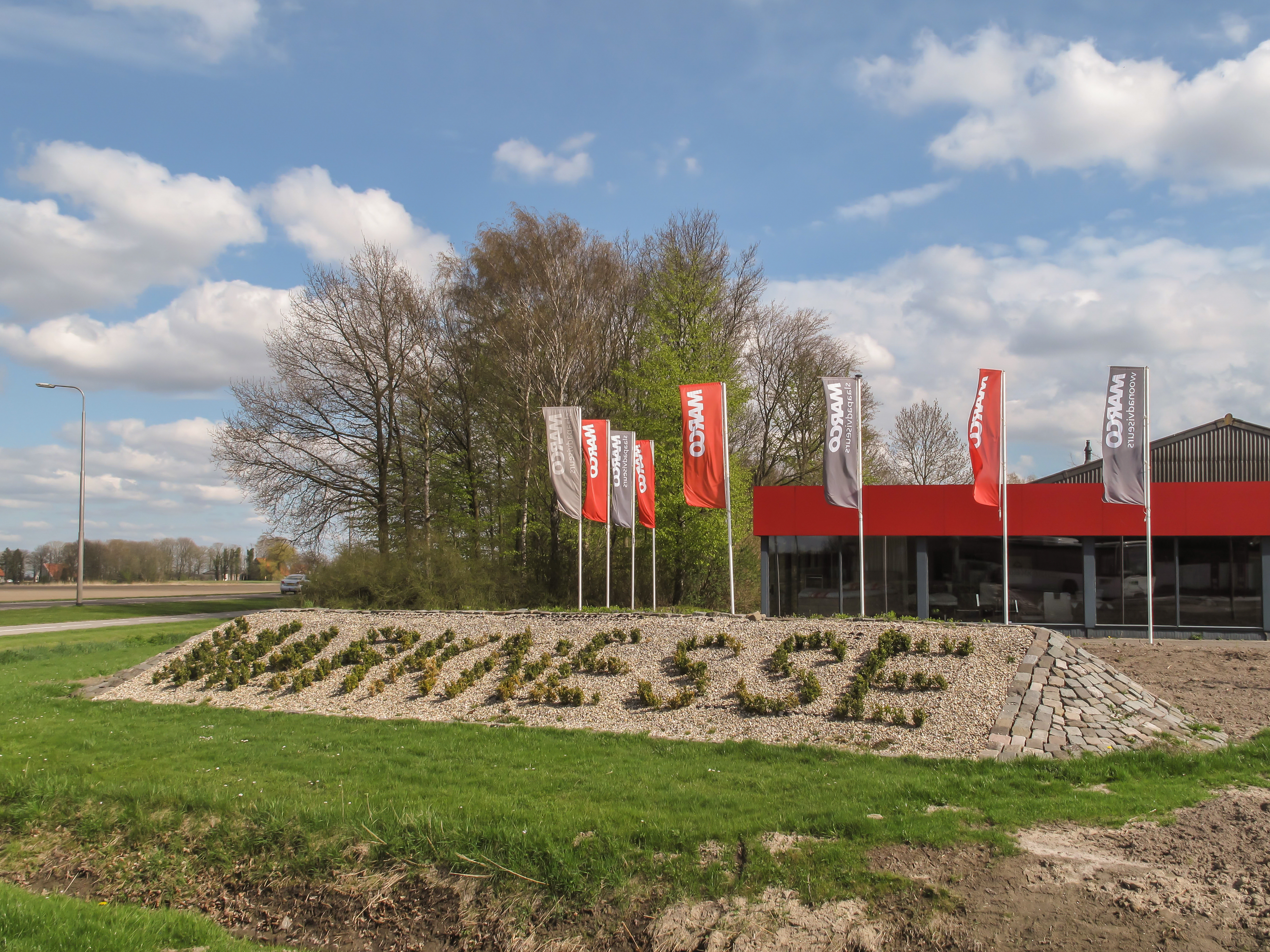 Marknesse, Marknesse in gren